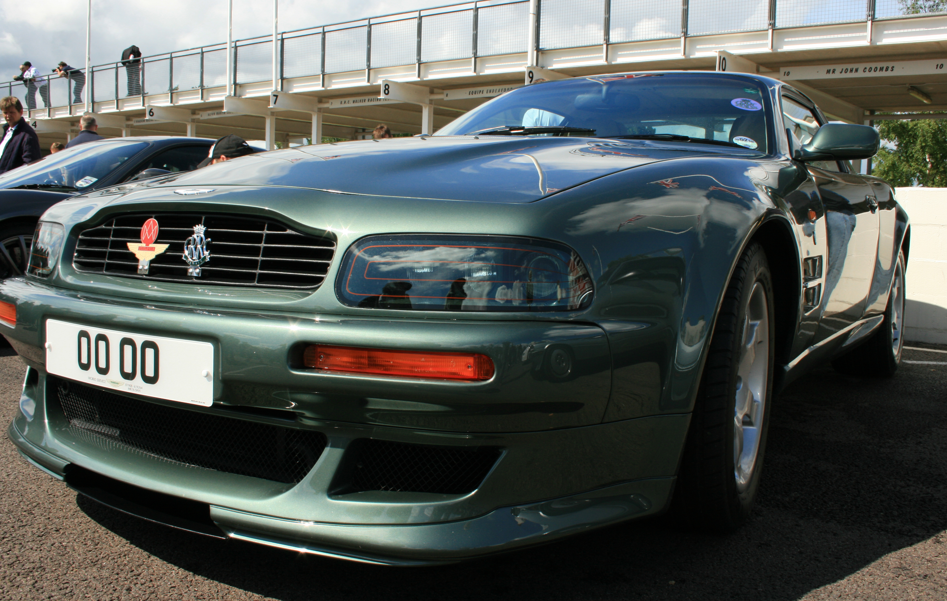 Aston Martin Vantage (V550) at Goodwood, 2009